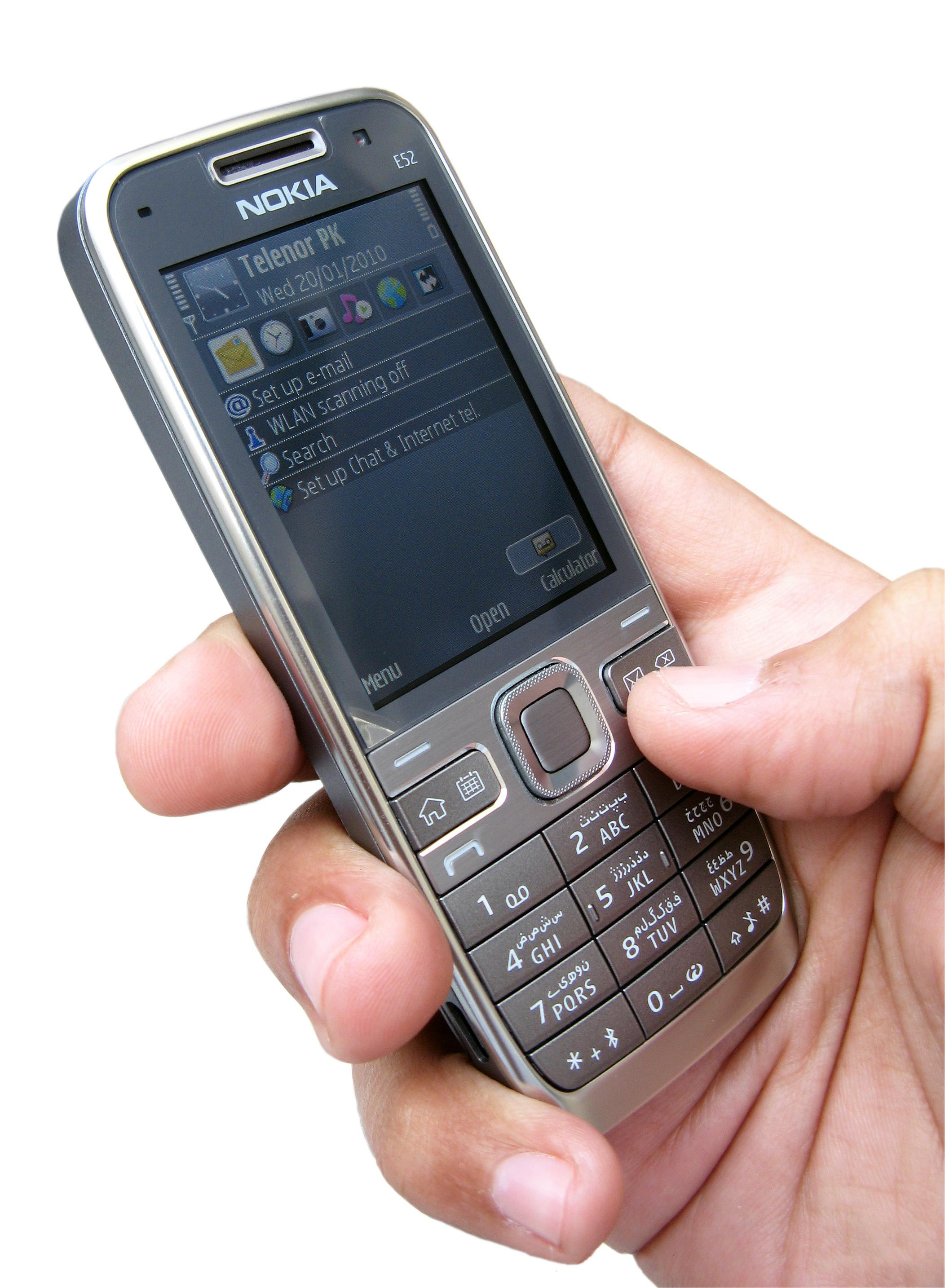 Nokia E52 in-hand position